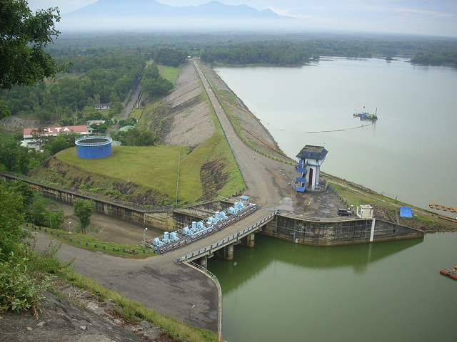 Gajah Mungkur Reservoir dam looks from the top of Hill nearest the dam